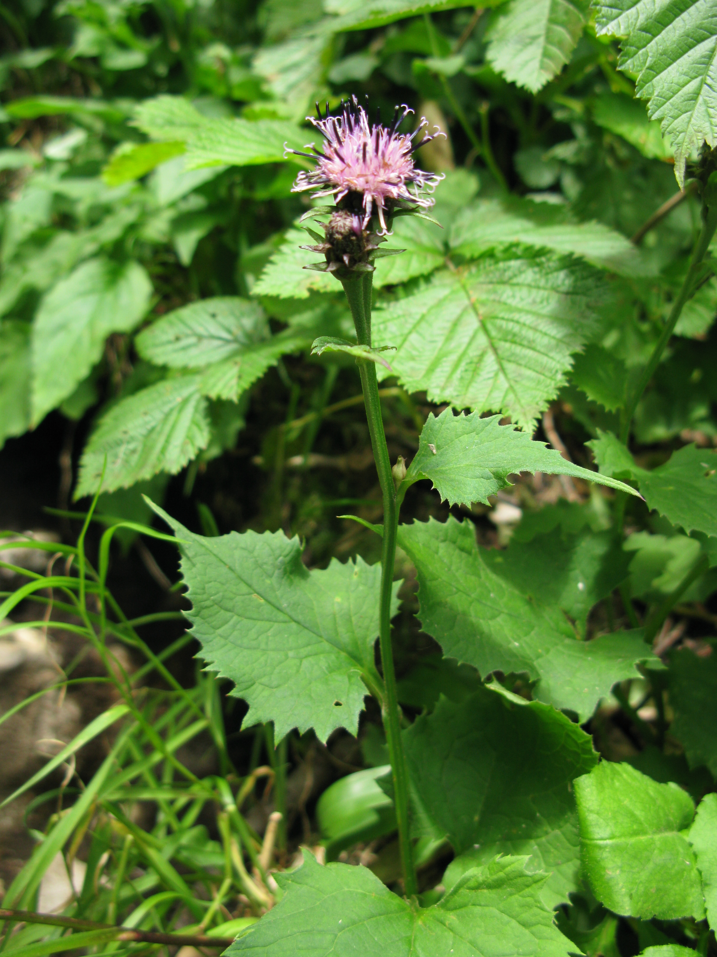 Saussurea nikoensis, Mount Nishi-Azuma, Fukushima pref., Japan